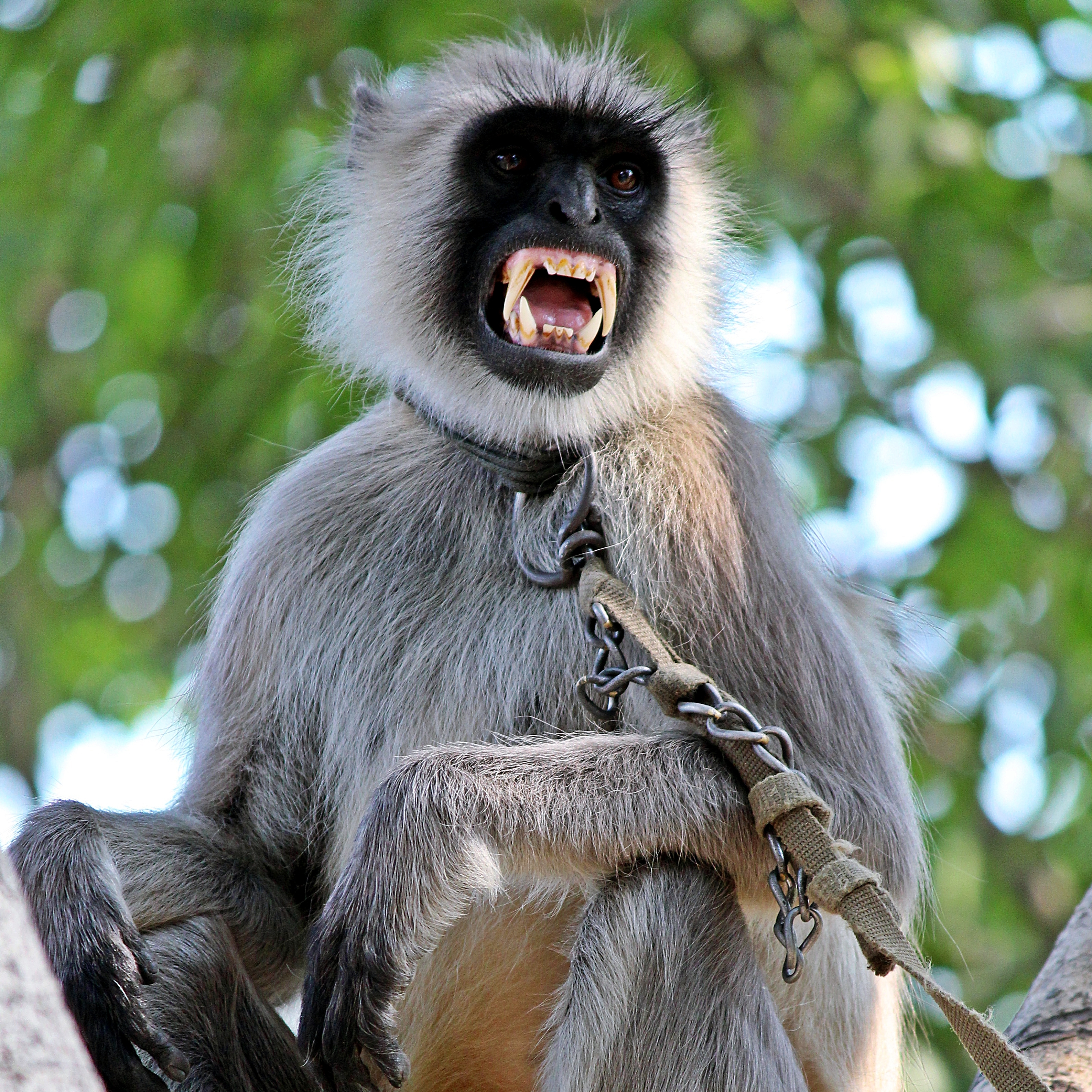 Colobinae tried to scared me while taking photo of him.